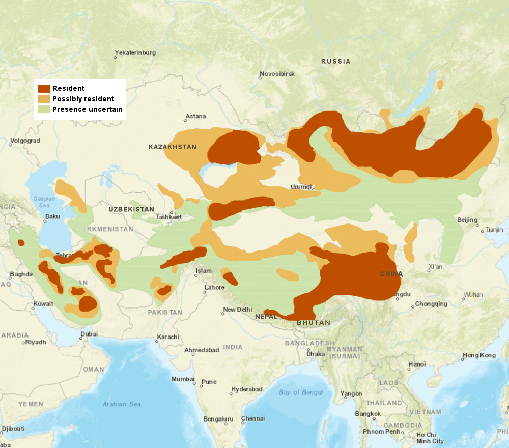 Distribution of Pallas's Cat